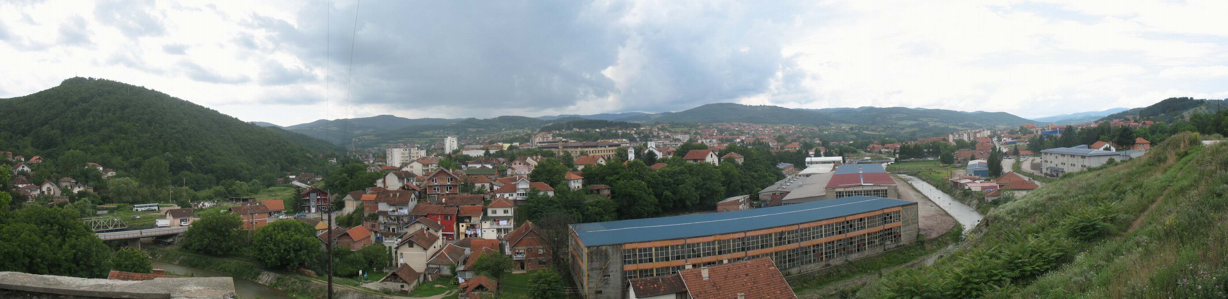 Panoramic view on Kuršumlija from Sveti Nikola monastery.